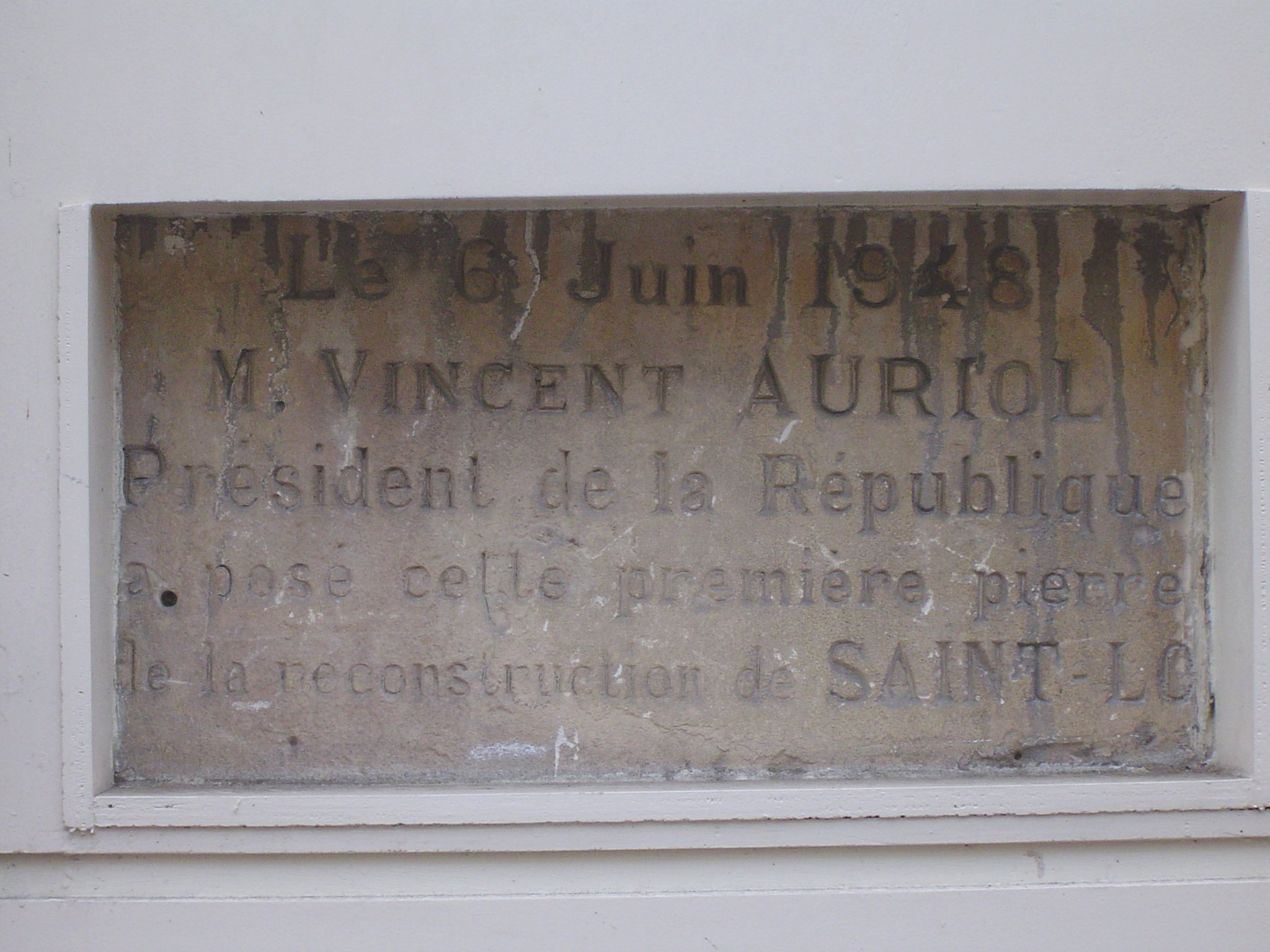 The first stone placed by the president of French republic Vincent Auriol